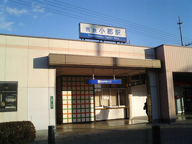 Nishitetsu-Ogori Station